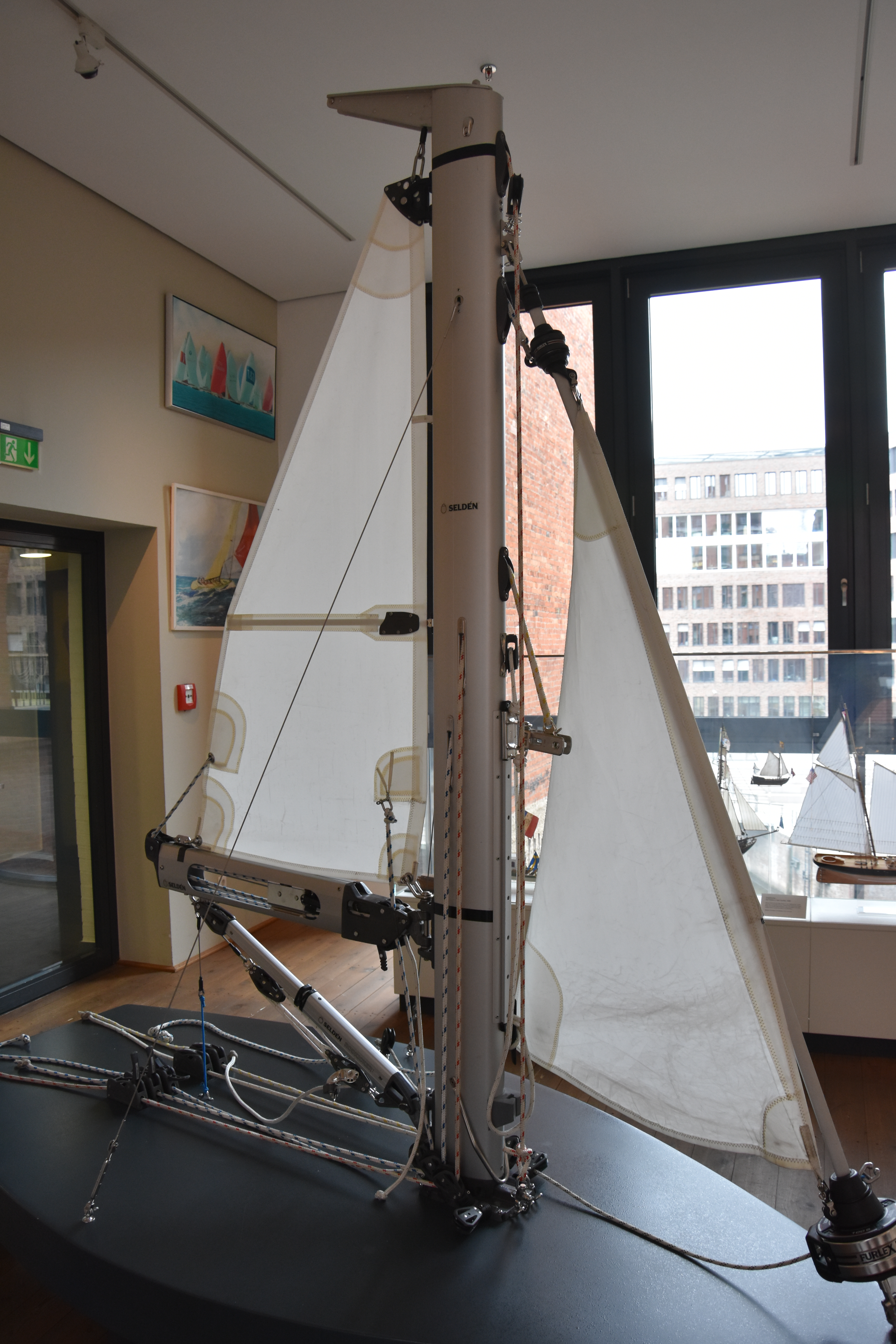 Model of the rigging of a modern sailboat. All elements are functional and in original size, except for the length of the mast and the boom. Manufacturer: Selden Masts. Collections of the maritime Museum Hamburg.